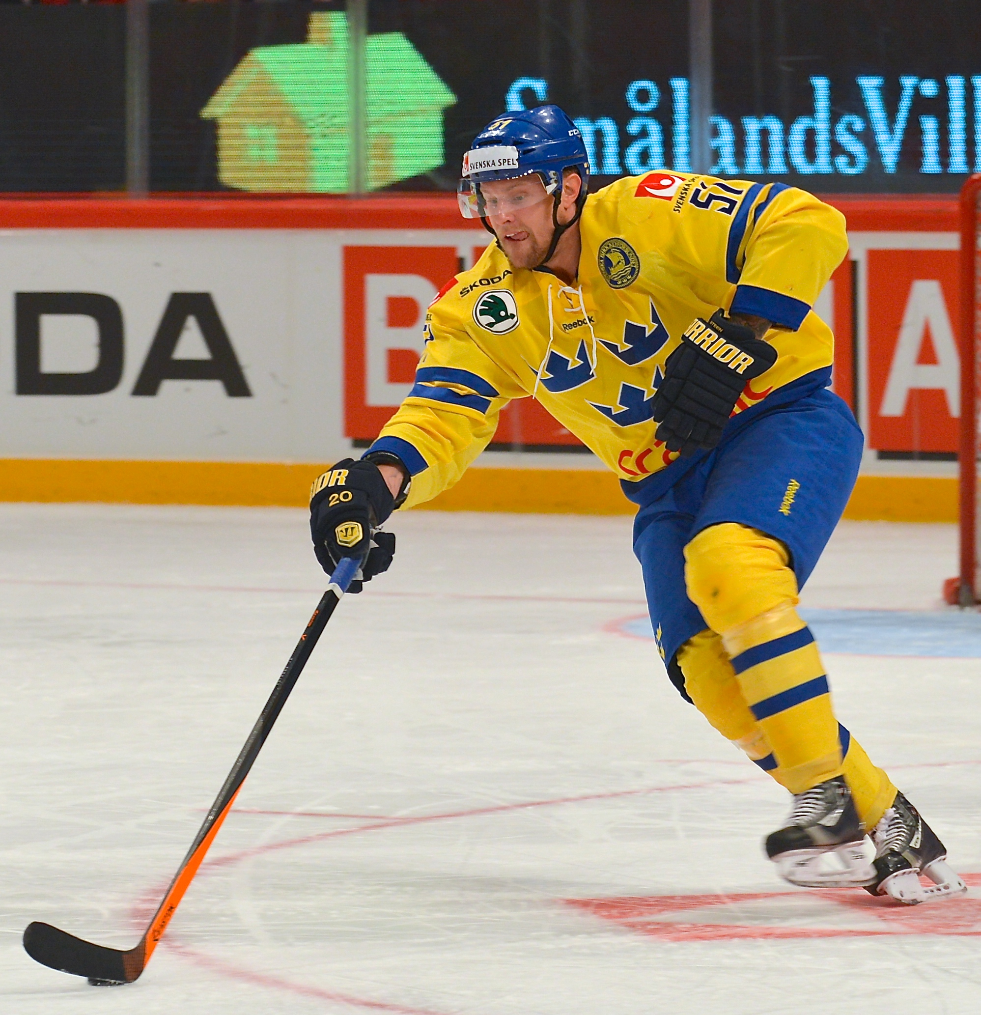 Jonas Ahnelöv during Oddset Hockey Games against Russia (2-0) at the Ericsson Globe in Stockholm on May 4th, 2014.